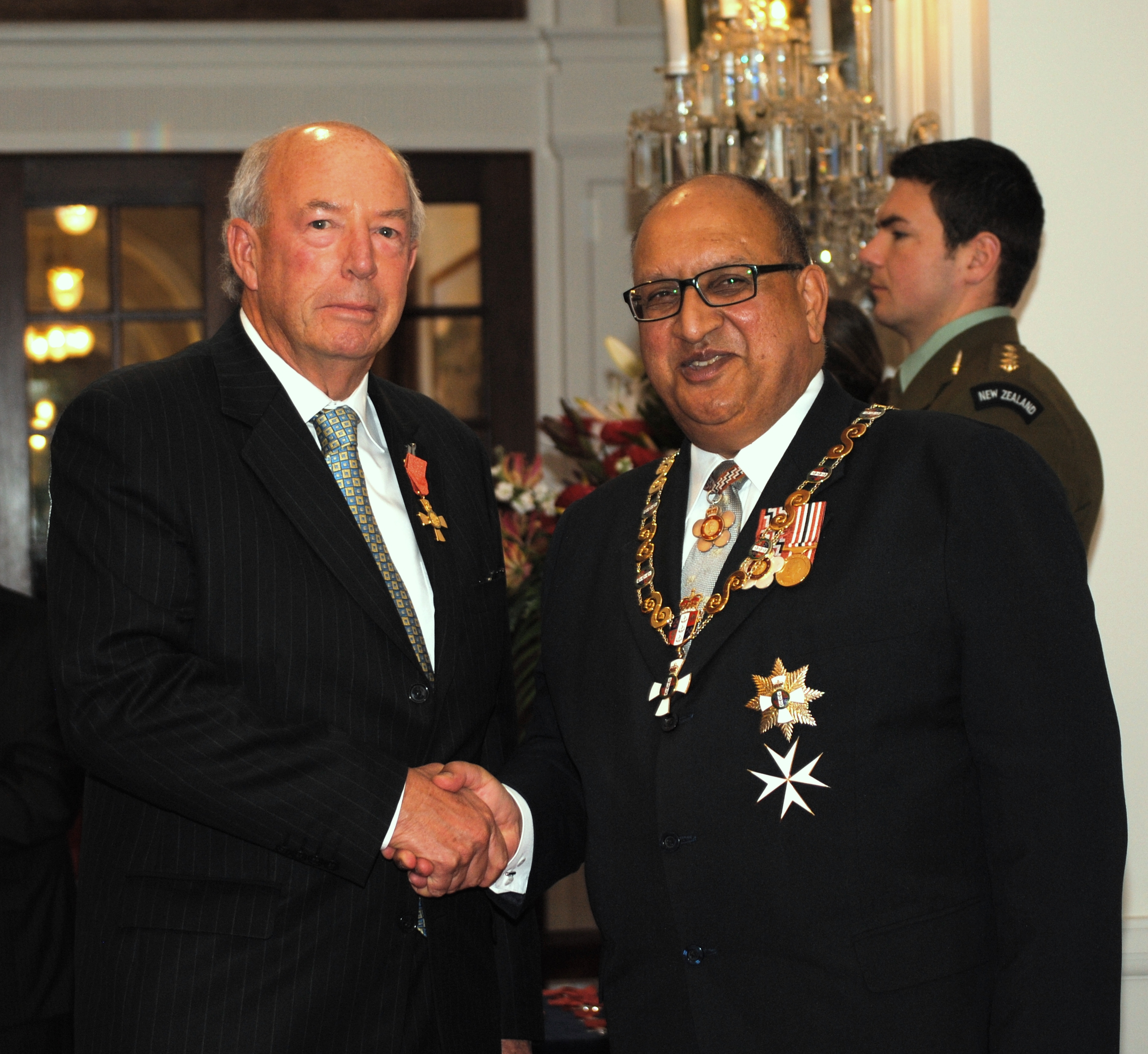 Richard Long (left), after his investiture as ONZM, for services to journalism, by the governor-general, Sir Anand Satyanand, on 14 April 2011